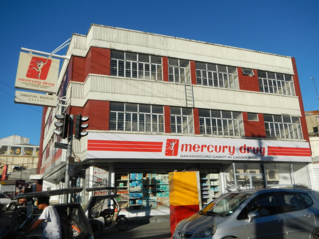 Mercury Drug brancy in Barangays Mabini Extension(Poblacion), Quezon District, Mabini Homesite (Poblacion), Cabanatuan City, Nueva Ecija.